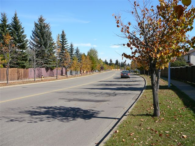 I took this picture myself on September 15, 2007